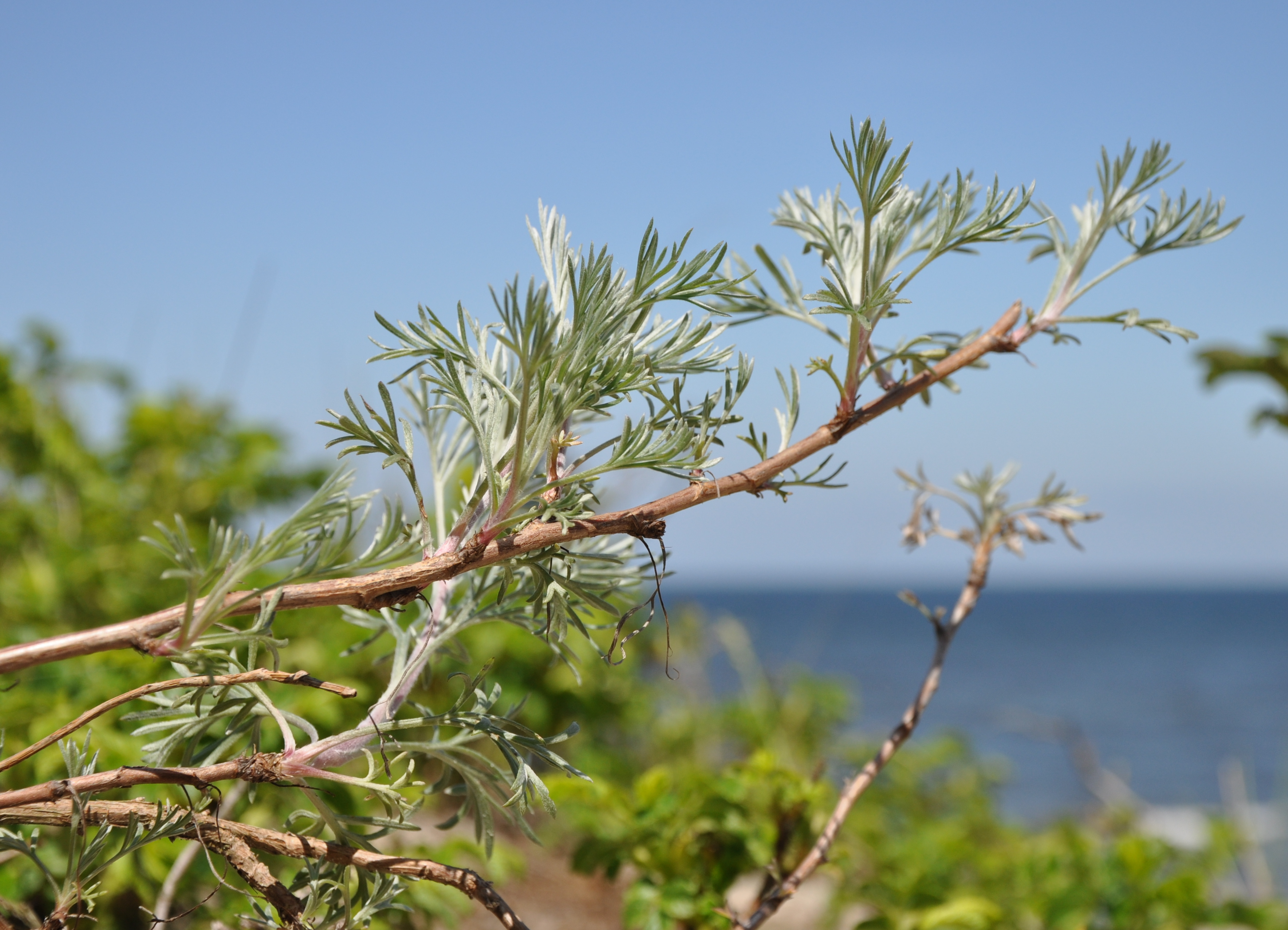 Artemisia campestris littoral on the coastal dune in Mrzeżyno, Poland